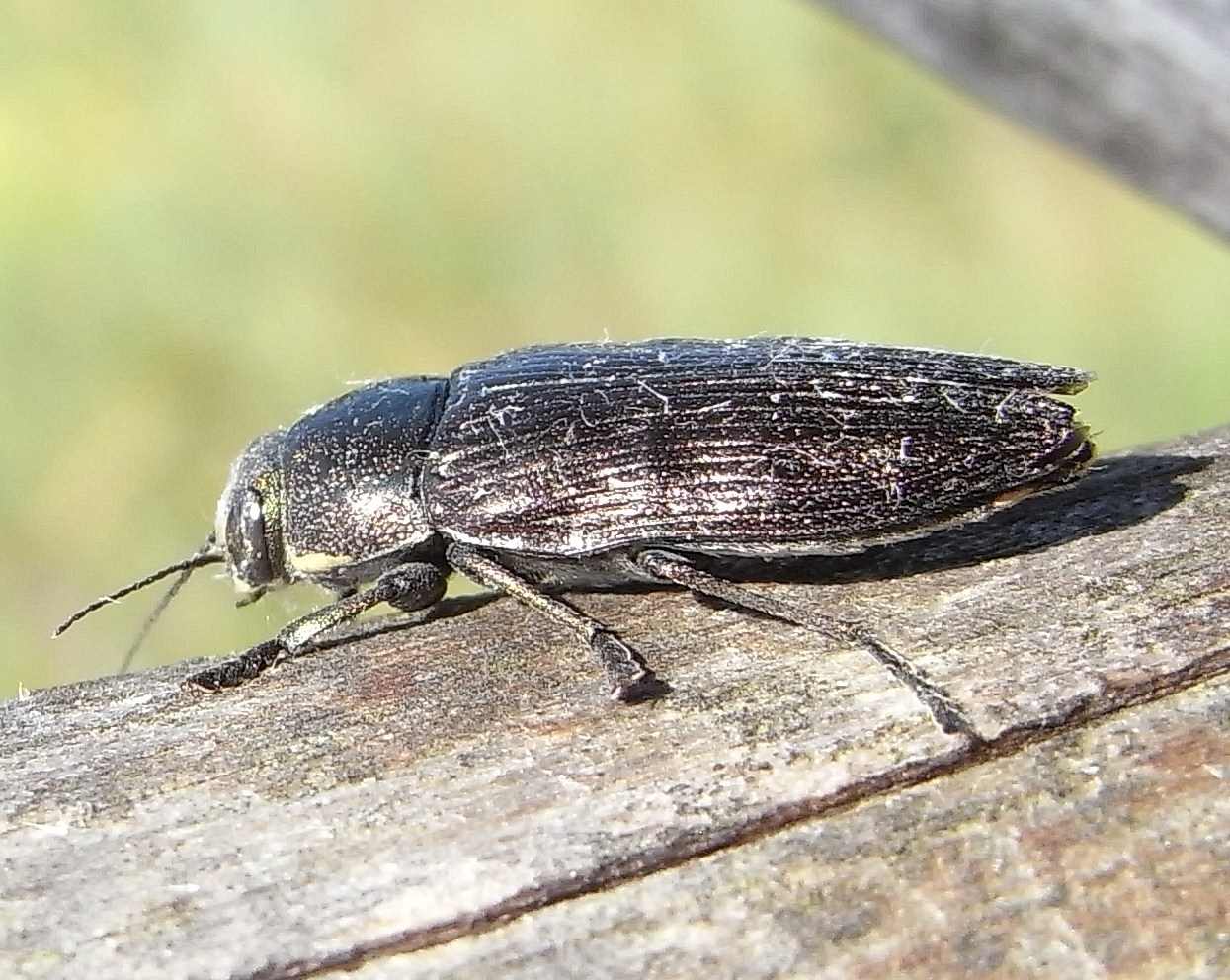 Buprestis haemorrhoidalis from Hungary, Vertes-mountains at 2010-07-08Ricoh R8